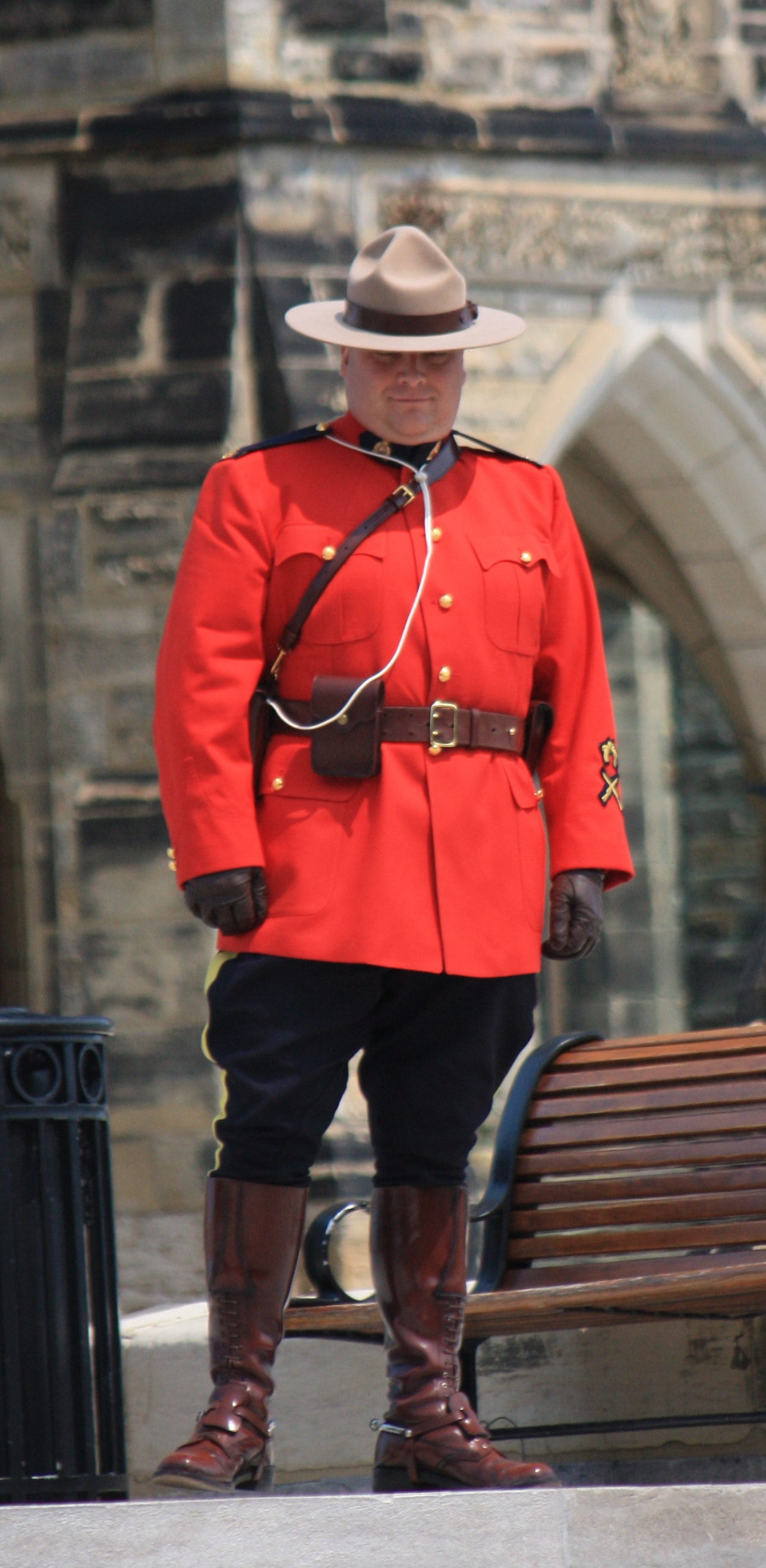 An officer of the Royal Canadian Mounted Police (a "Mountie") standing guard on Parliament Hill in Ottawa, Ontario